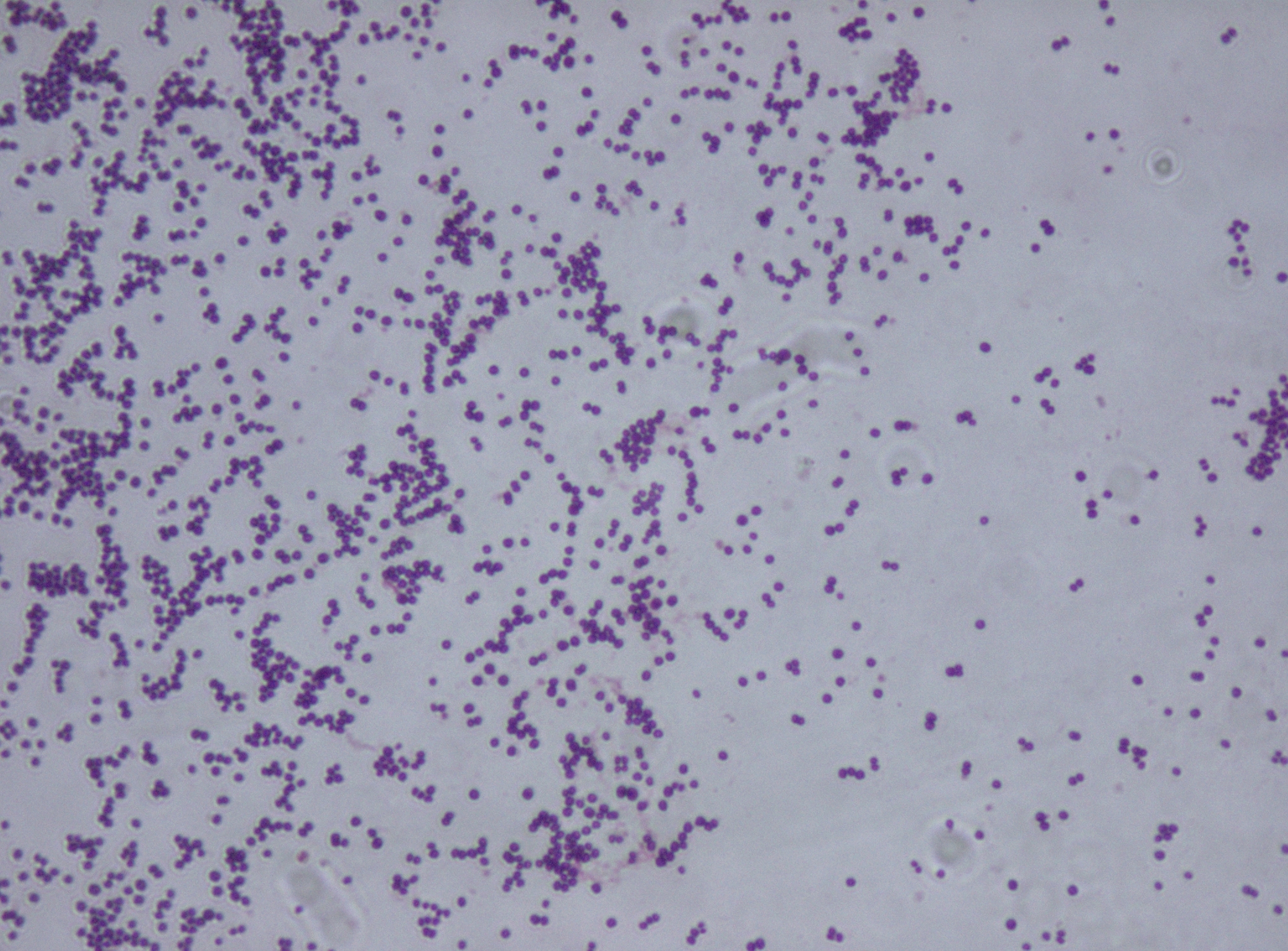 Gram stain